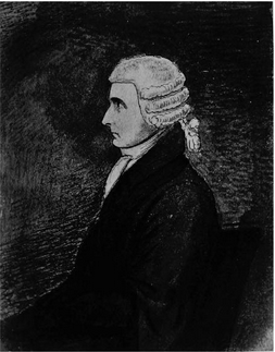 Drawing of James Wedderburn, Solicitor General by Robert Scott Moncrieff